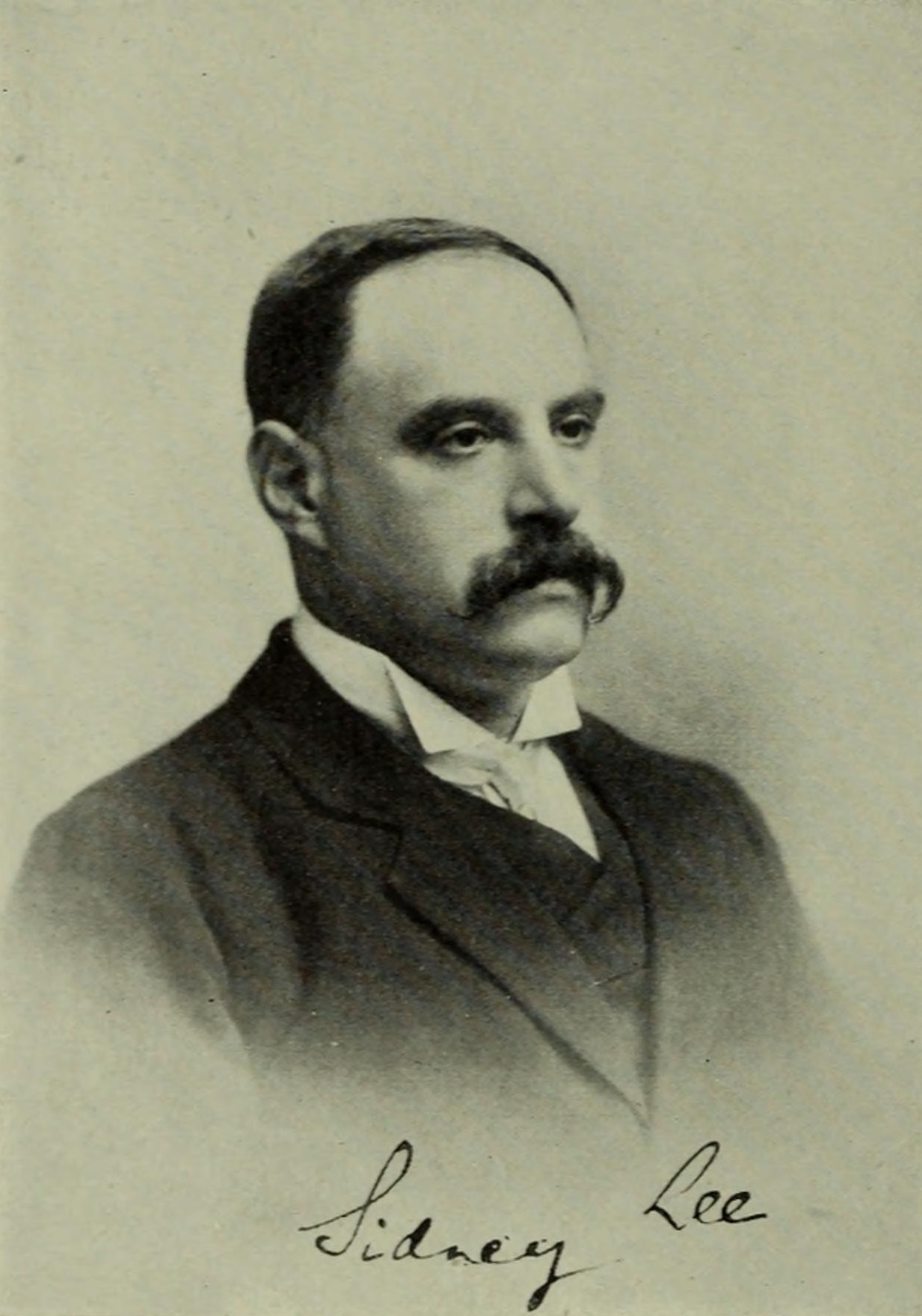 Sidney Lee